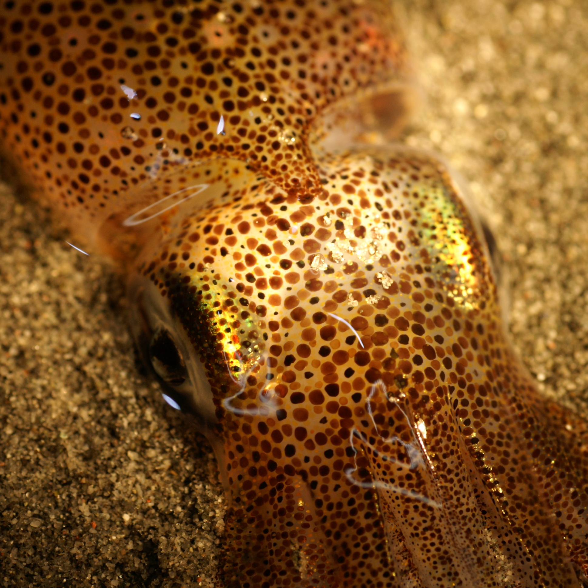 Loligo opalescens switches up his coloration to blend in a bit better.